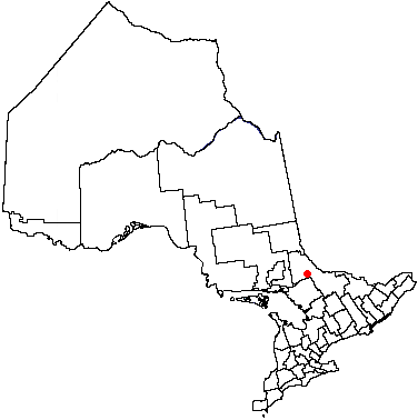 Locator Map of North Bay, Ontario